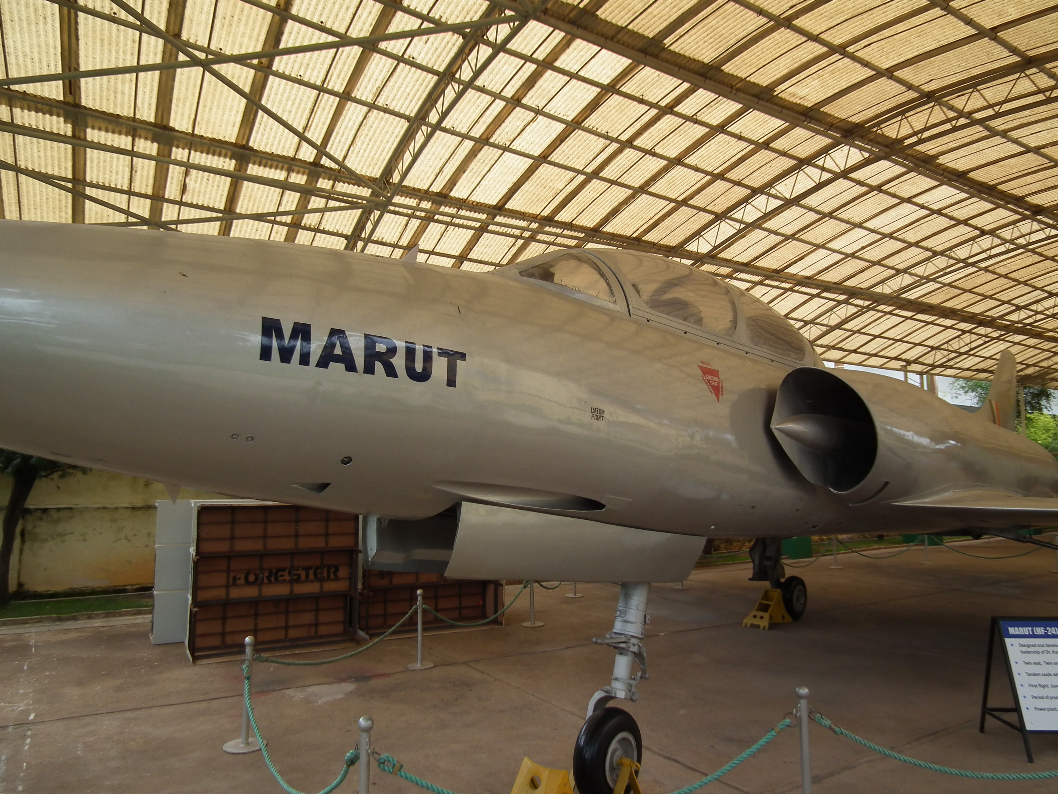 HAL HF-24 Marut trainer at HAL Museum